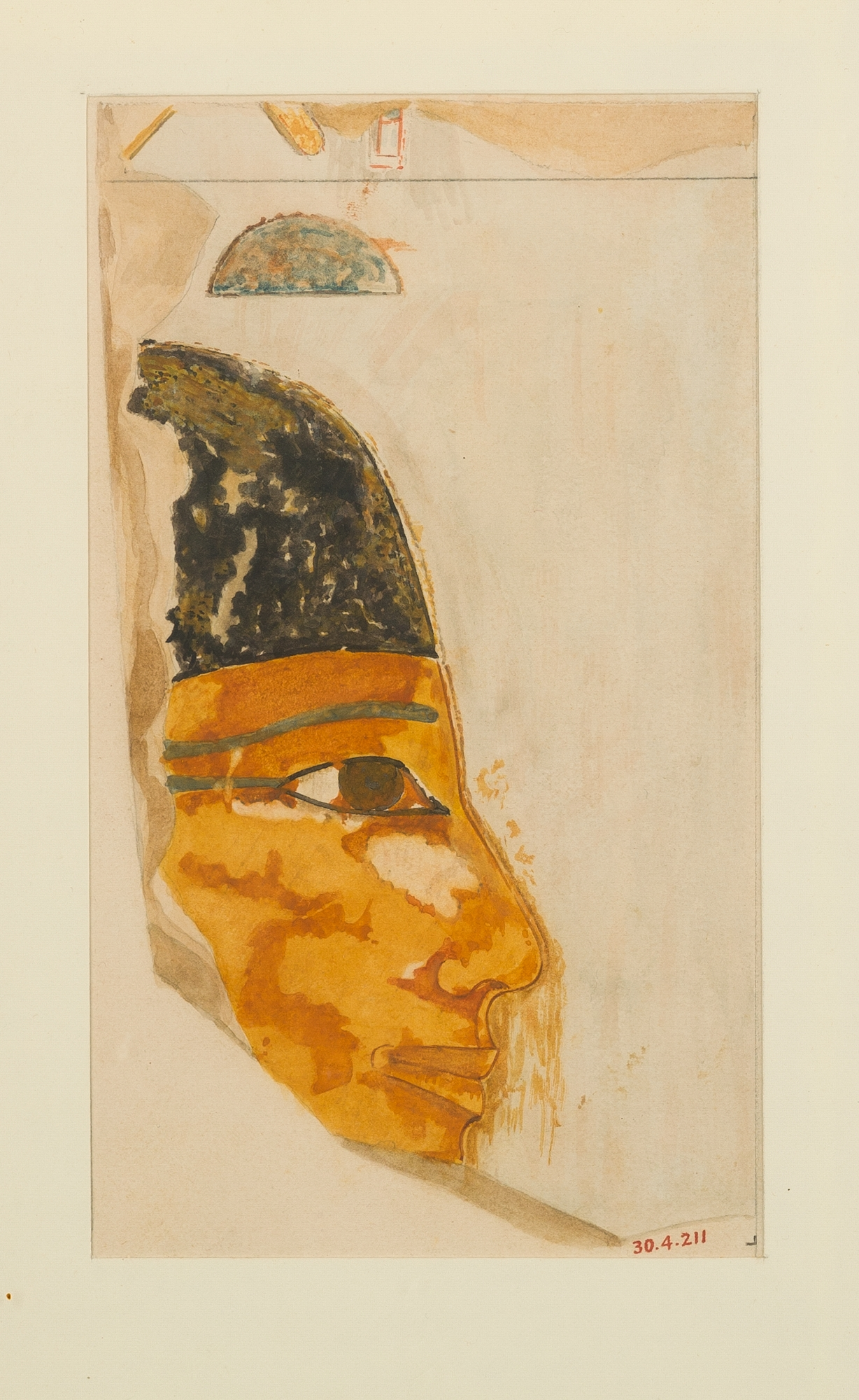 Facsimile, Puyemre (TT 39)